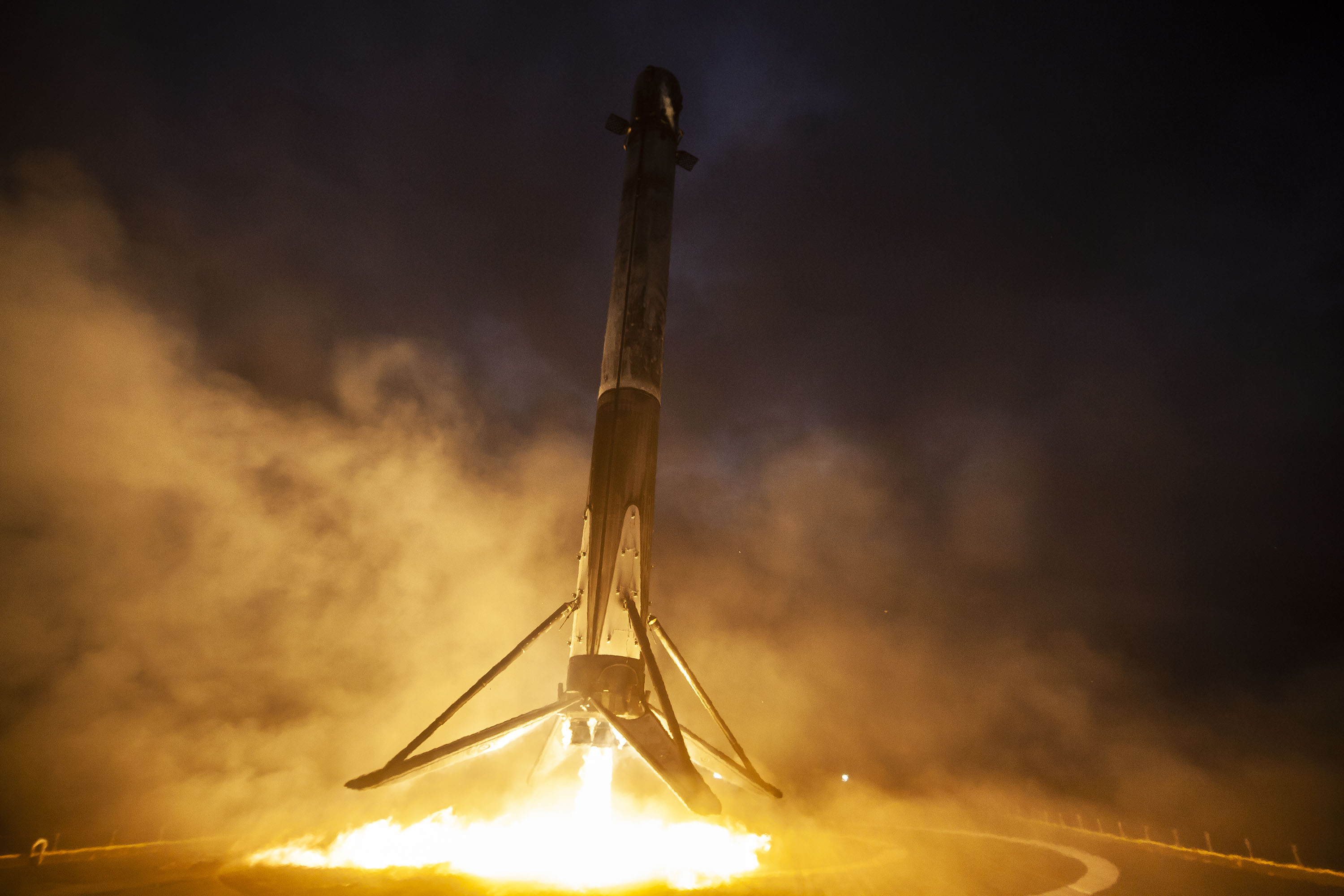 Arabsat-6A Mission